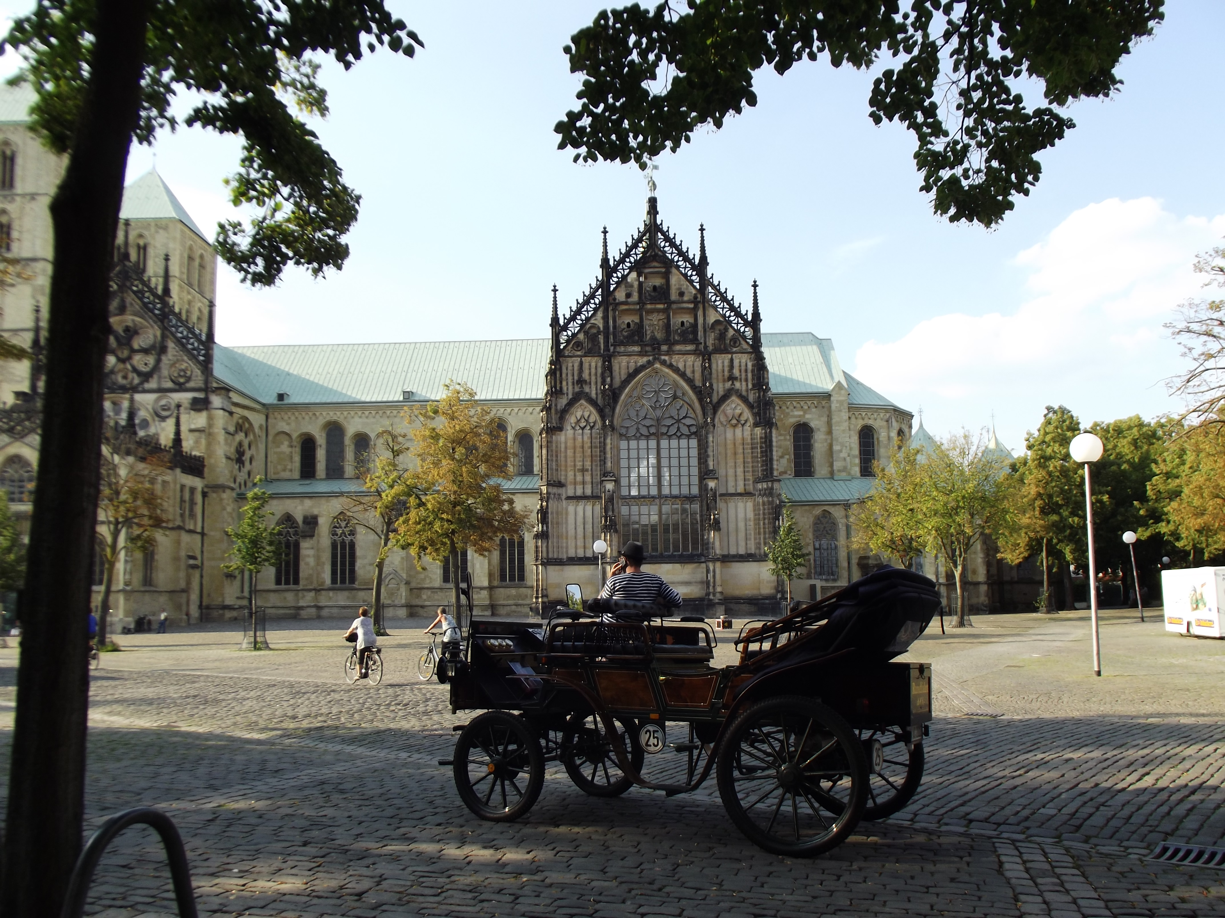 The historical market square. Free sight, because the market is just over. In the foreground a vehicle used for sightseeing tours